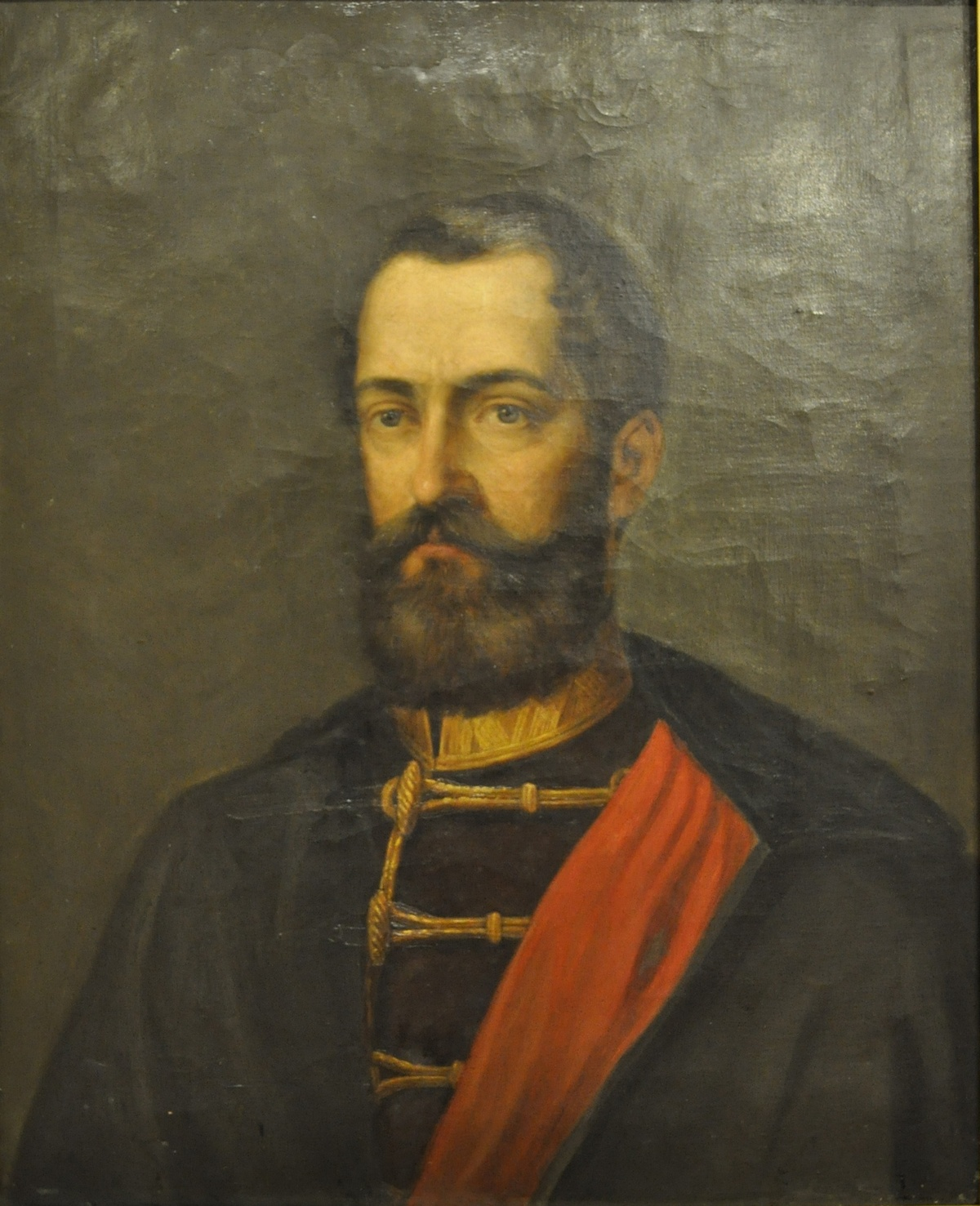 Lázár Vilmos painting